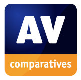 AV-Comparatives organization logo